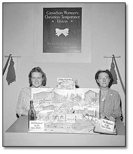 Women's Christian Temperance Union's display booth for the Canadian National Exhibition, in Toronto